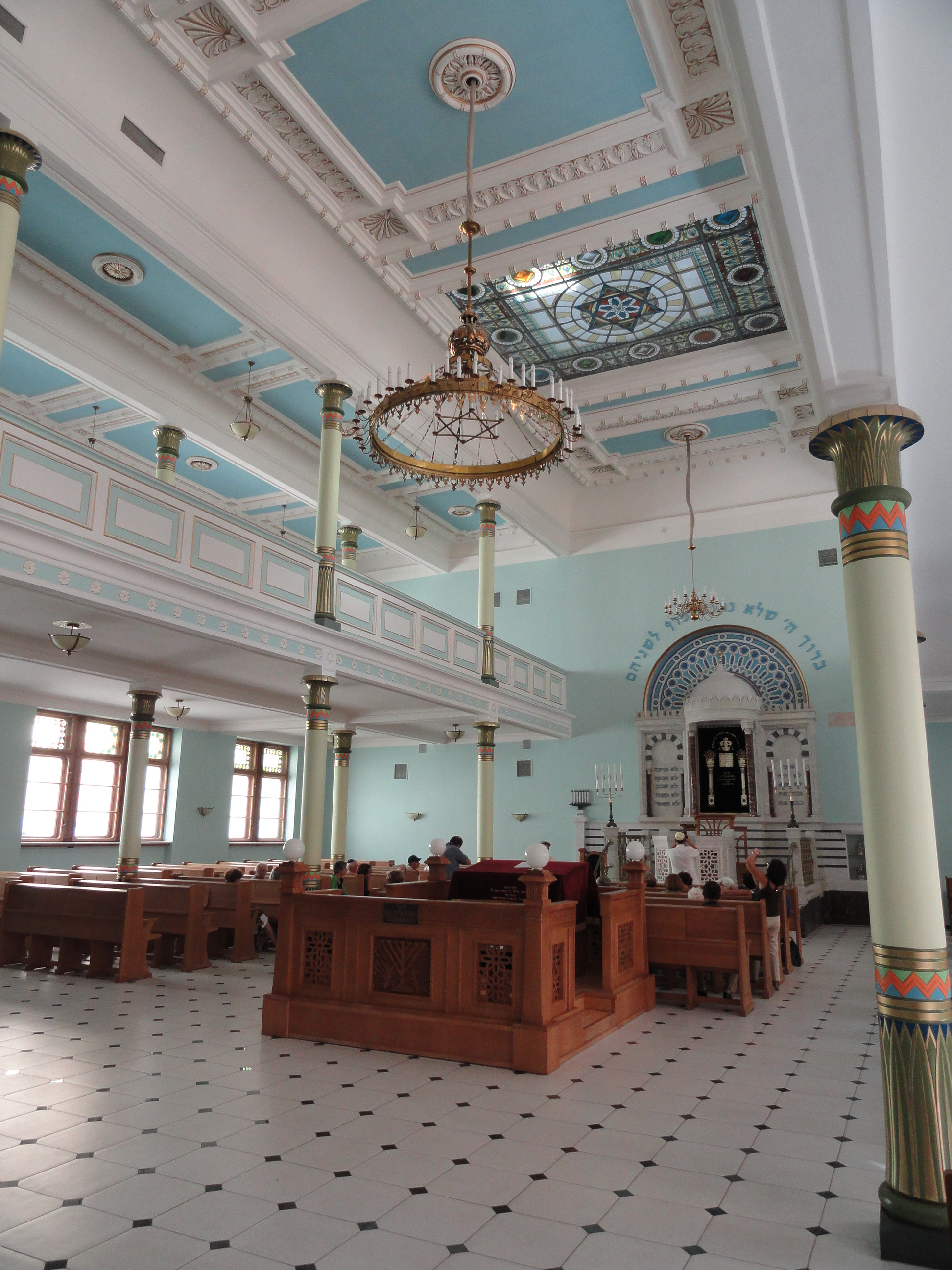 Synagogue of Riga (Litvia). General interior view. Front the Bimah - Back: the Aron Kodesh